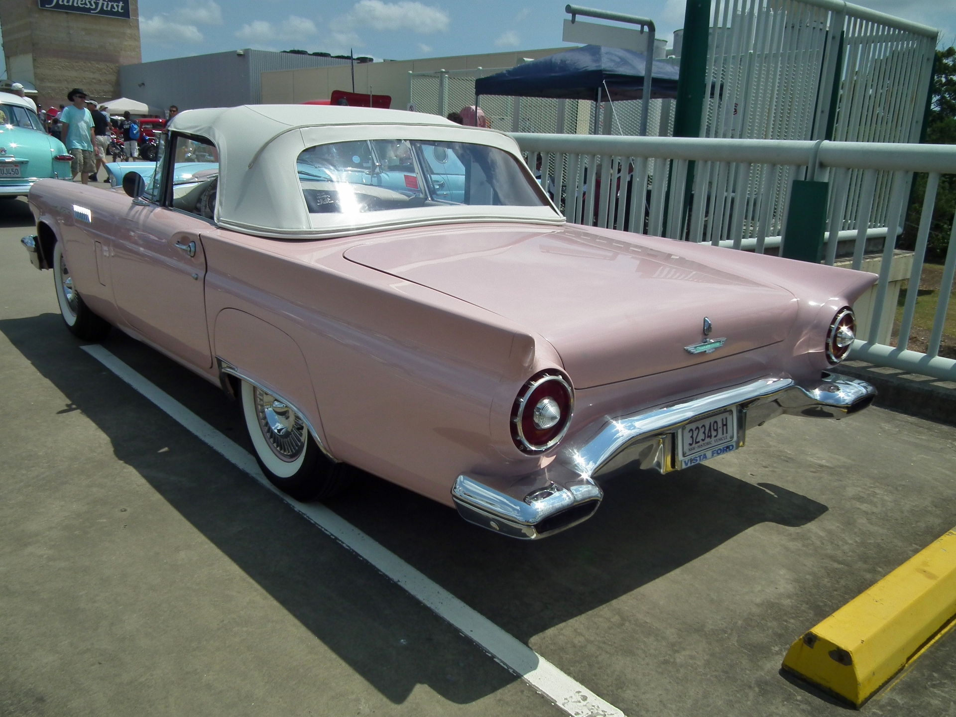 1957 Ford Thunderbird convertible. Taken at the 2014 New South Wales All American Day, held at Castle Towers Shopping Centre, Castle Hill, Sydney.